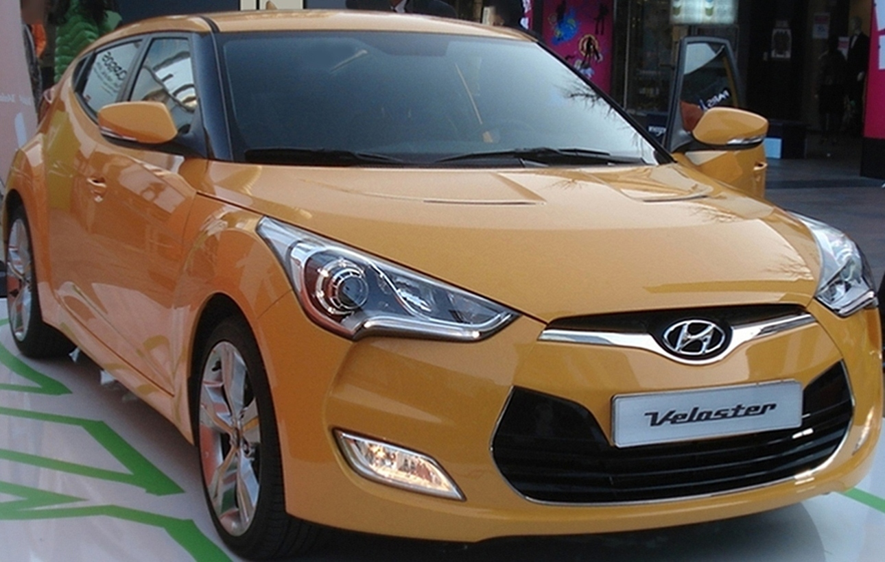 Hyundai Veloster